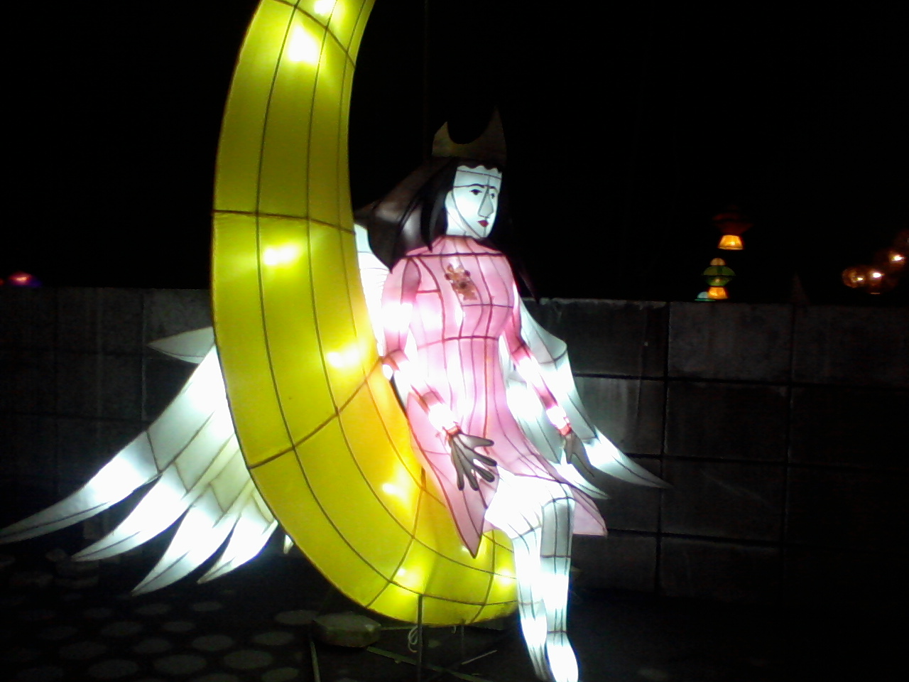 lampion in the Taman Pelangi Yogyakarta